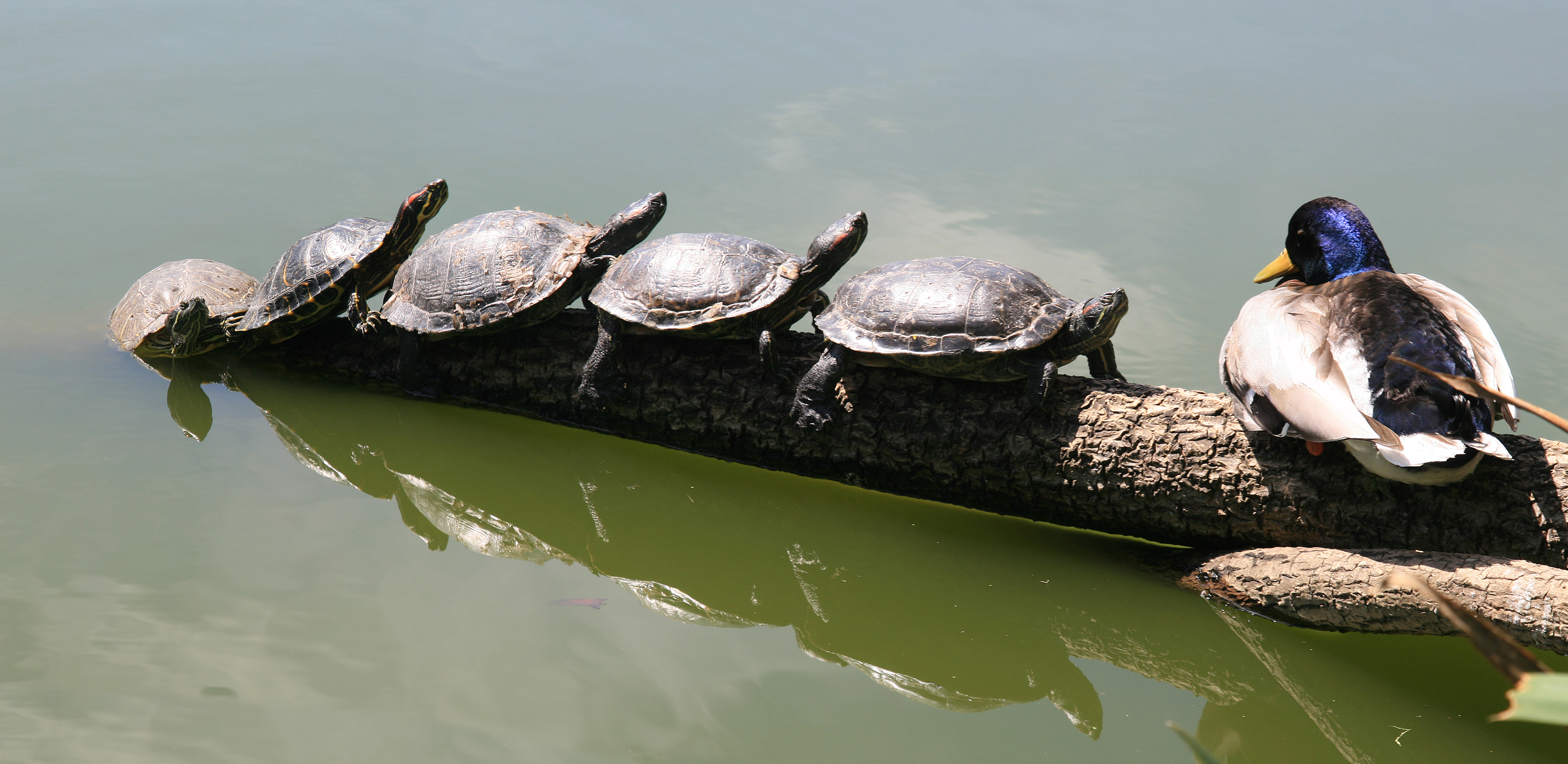 Red-eared slider , Trachemys scripta elegans and male Mallard in Golden Gate Park